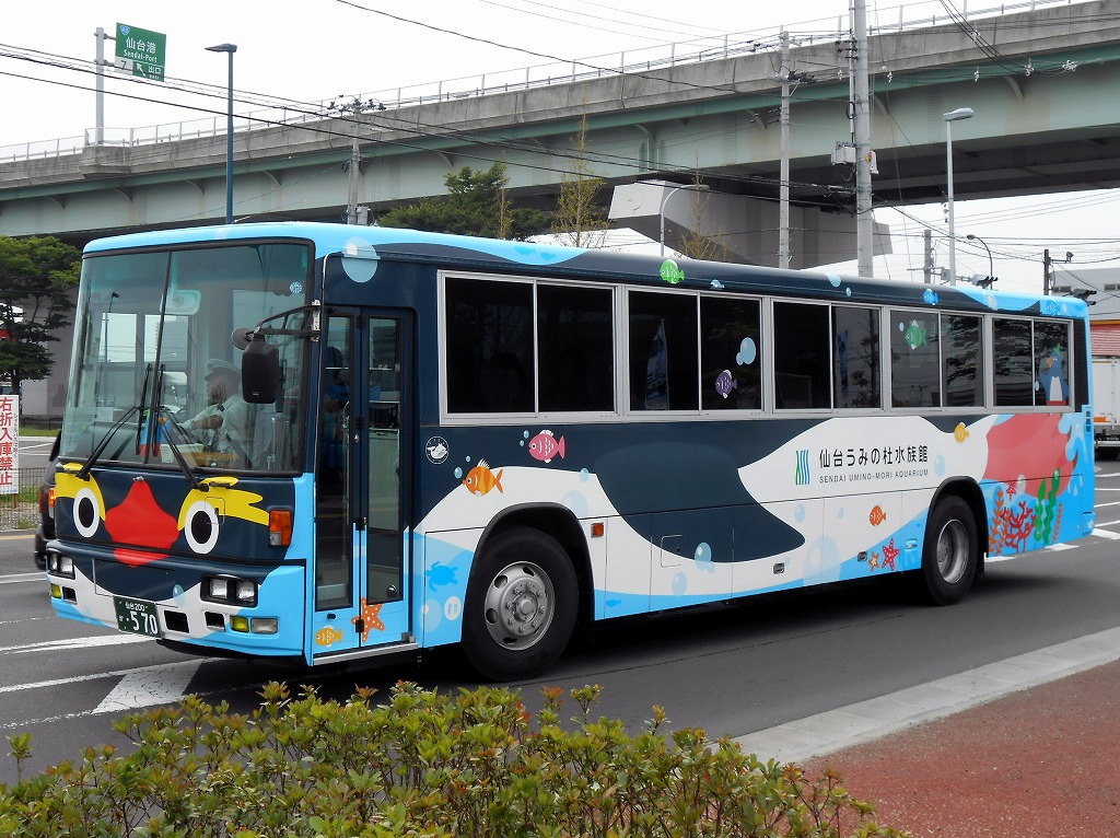 Nakano-Sakae station (JR Senseki line) - Sendai Uminomori aquarium free shuttle bus (operated by 2525 taxi)